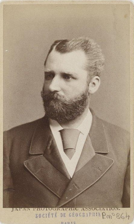 Carte de Visite portrait photograph of Albert George Sidney Hawes taken in Yokohama